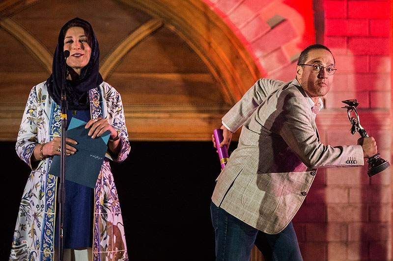 17th Iranian cinema celebration was held in Masoudieh Mansion by Iran's House of Cinema.